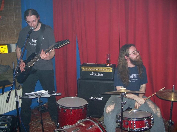 Umbrtka, more precisely her two founding members Morbivod (guitar) and Strastinen (drums) during a rare live performance in the Jabloň café in Plzeň, 26th March 2008